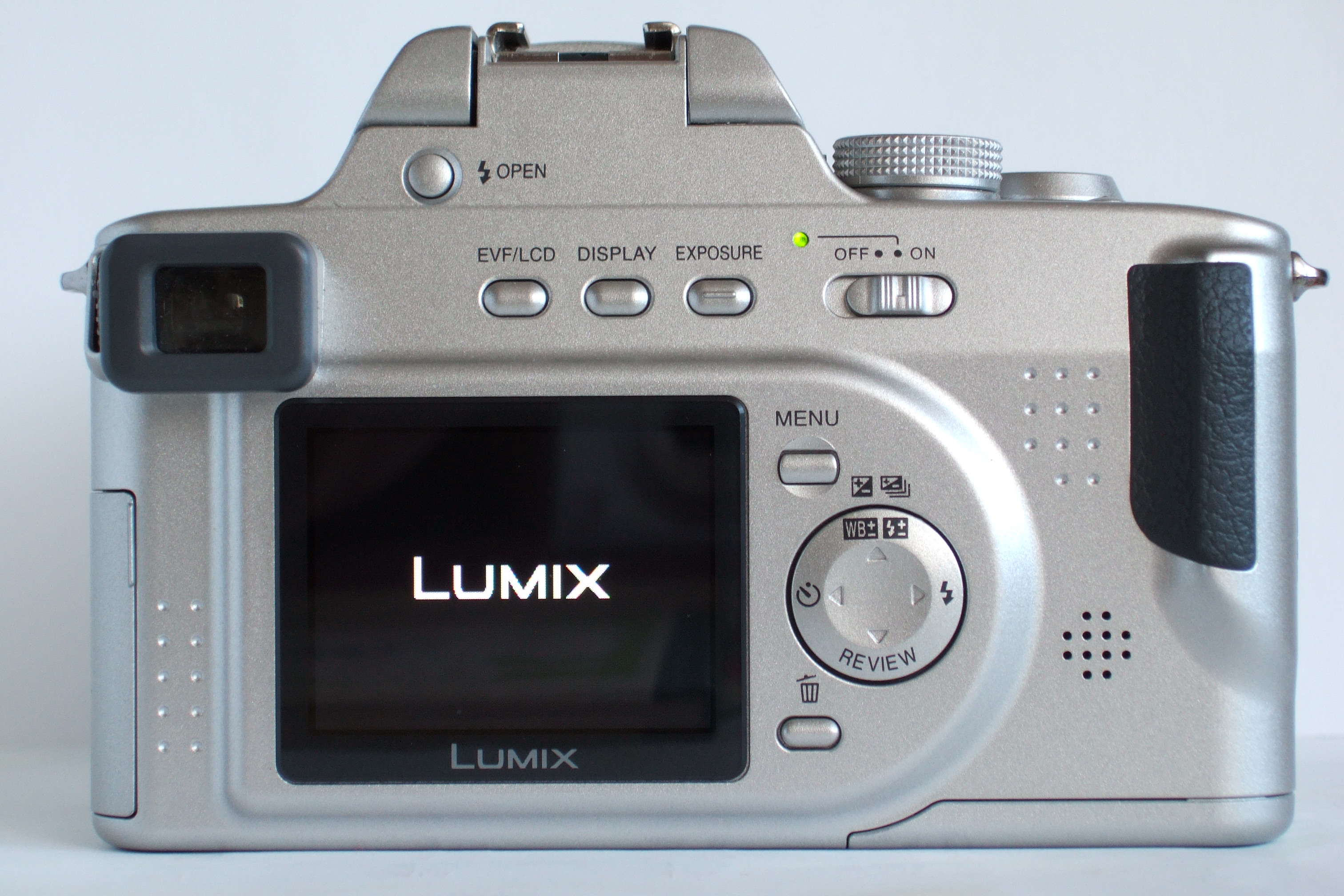 Back View Of The Panasonic Lumix DMC-FZ20